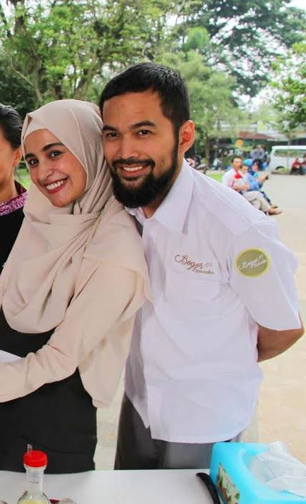 Guided by Chef Ico from De Chef Culinary, accompanied by Owners Raincake Shireen Sungkar and Yane Ardian, Bogor Mayor Bima Arya became the star in cooking activities for Ala Shireen Sungkar Ramadhan Menu at Taman Kencana, Bogor City, Sunday (04/06/2017) afternoon.